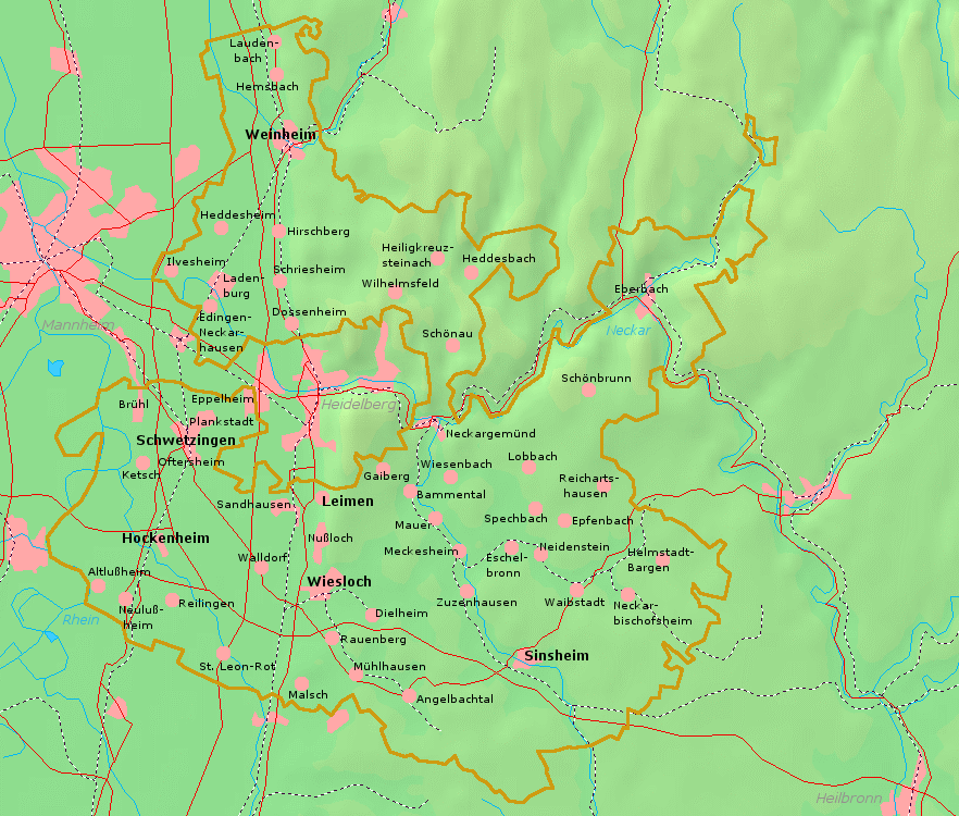 map of Rhein-Neckar-Kreis